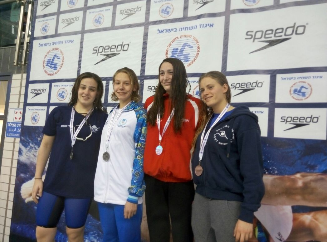 To the right: Yael Danieli, Aviv Barzelay, Alexandra shcheckik (Kazakhstan) and May Lowy, Israel swimming championship (25 meters pool) December 2016